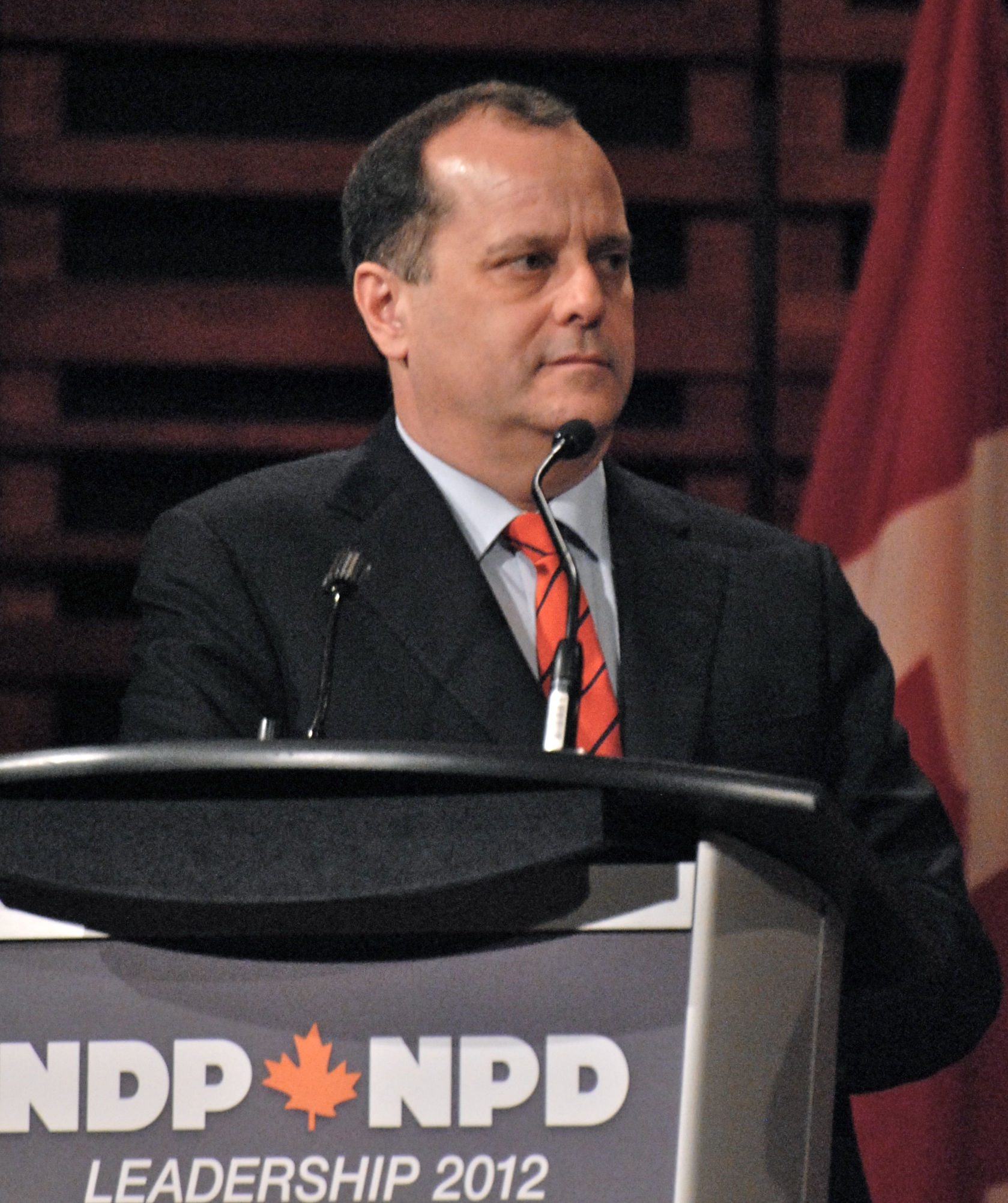 Brian Topp, during the debate of the candidates to the leadership of the New Democratic Party of Canada, February 12, 2012 in Québec